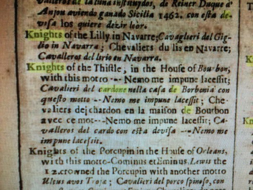 English - Italian - French - Spanish translation